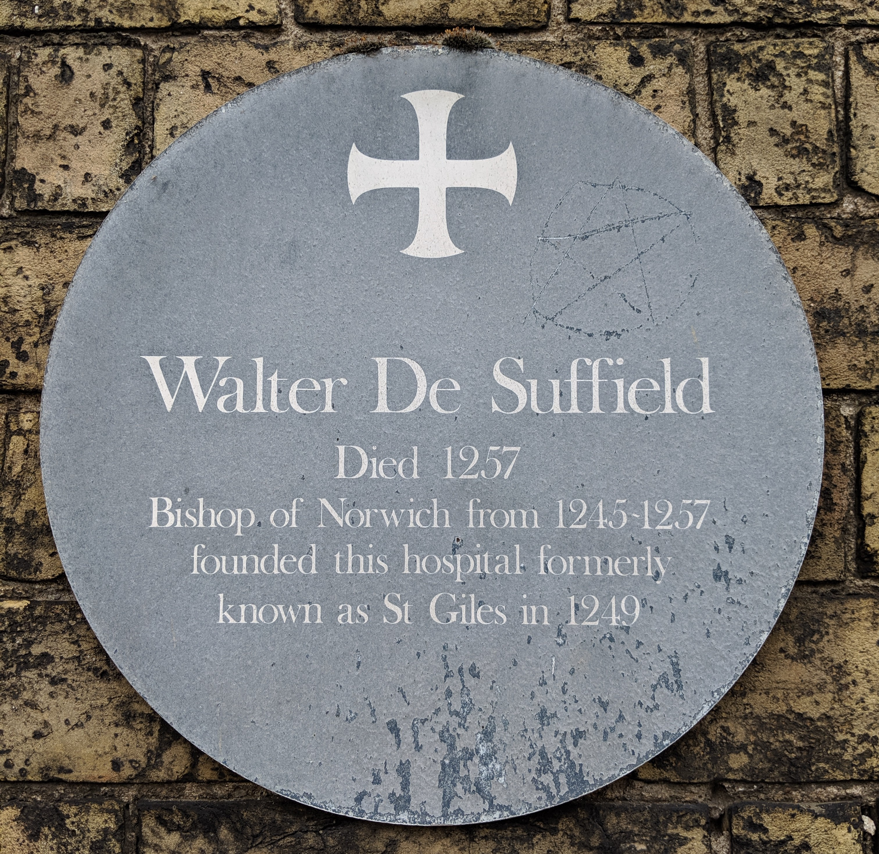 Plaque commemorating Walter de Suffield outside the entrance to the Great Hospital, Norwich.